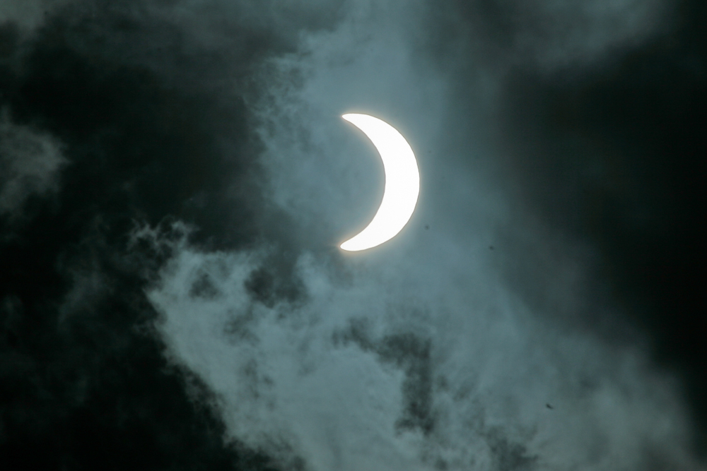 The Solar Eclipse from Tauranga, seen at about 10:15 AM